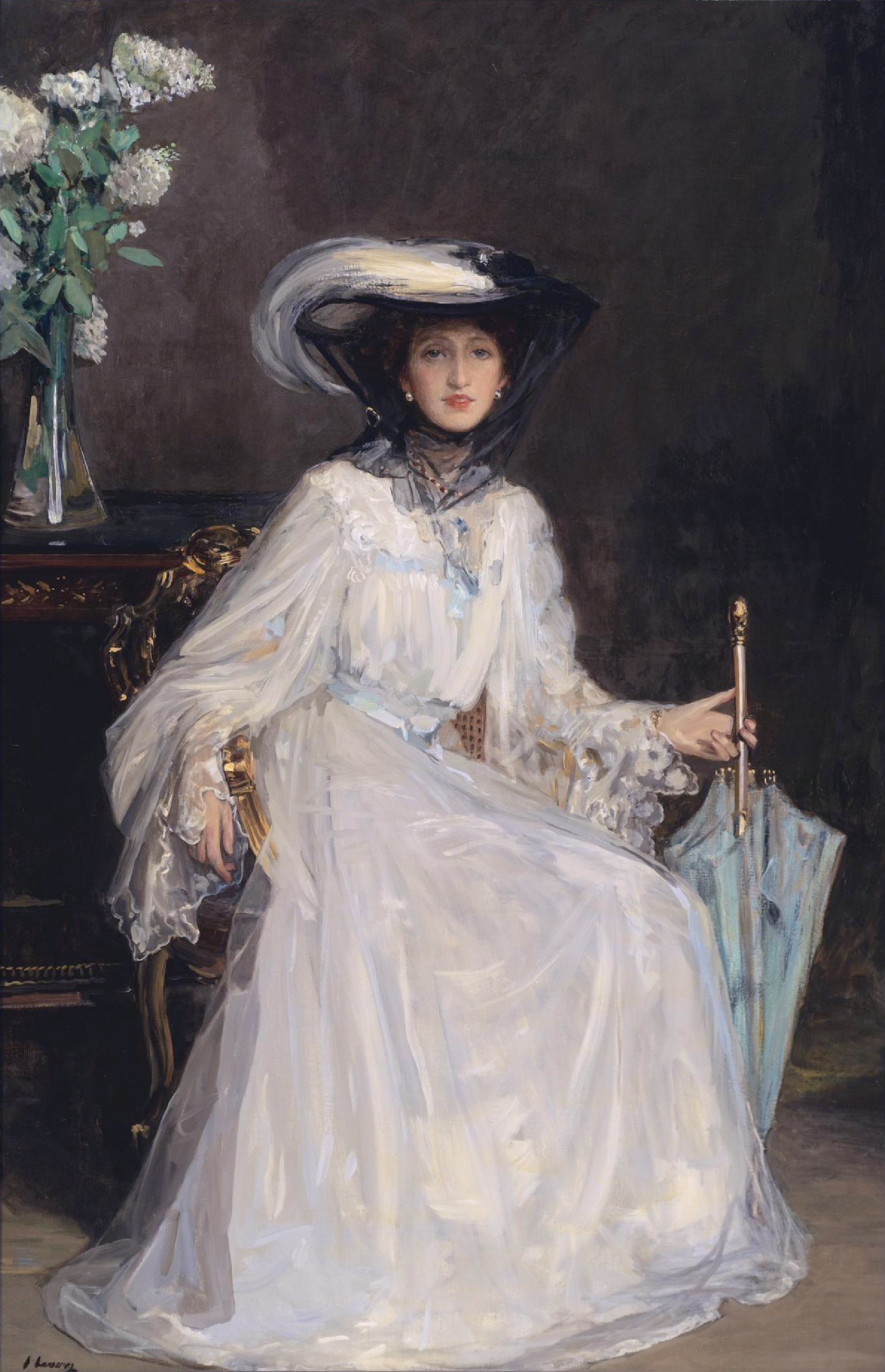 Evelyn Farquhar, wife of Captain Francis Douglas Farquhar (d.1915), daughter of the John Hely-Hutchinson, 5th Earl of Donoughmore oil on canvas 184 x 120.5 cm signed l.l: J. Lavery 1906